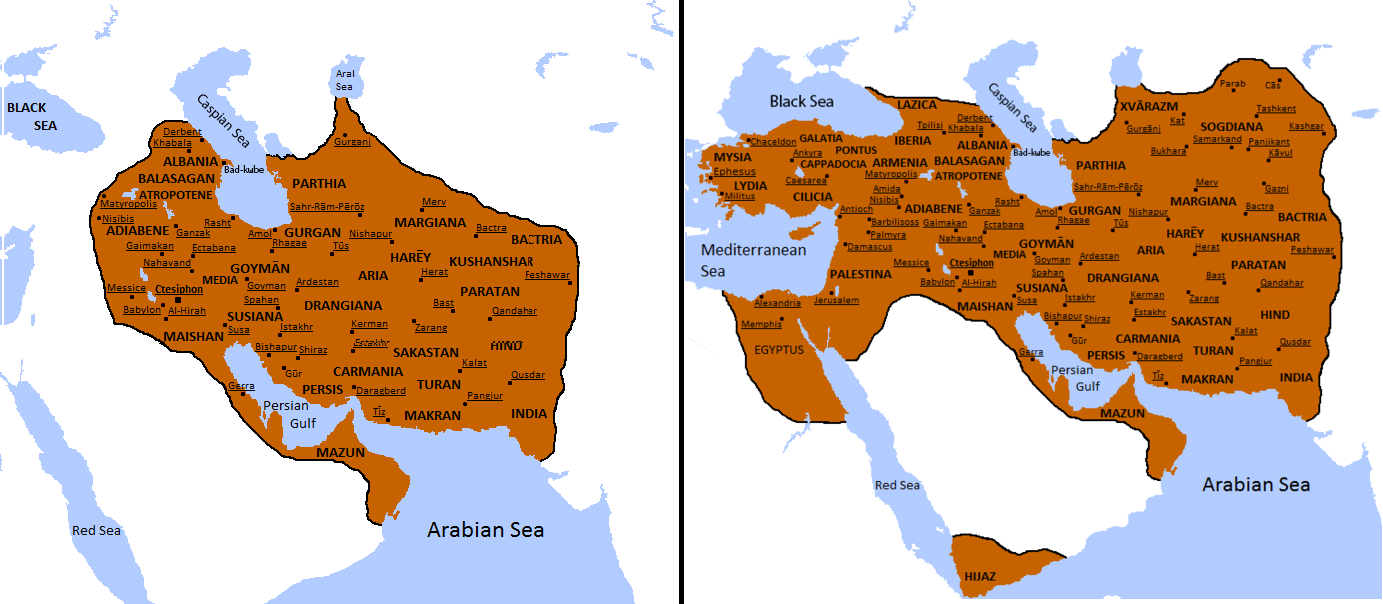 This map depicts the Sasanian Empire prior to the Final Roman-Persian War and it's territorial gains in 619 A.D.